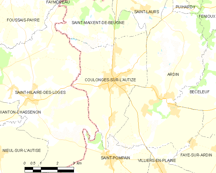 Map of French municipality Coulonges-sur-l'Autize